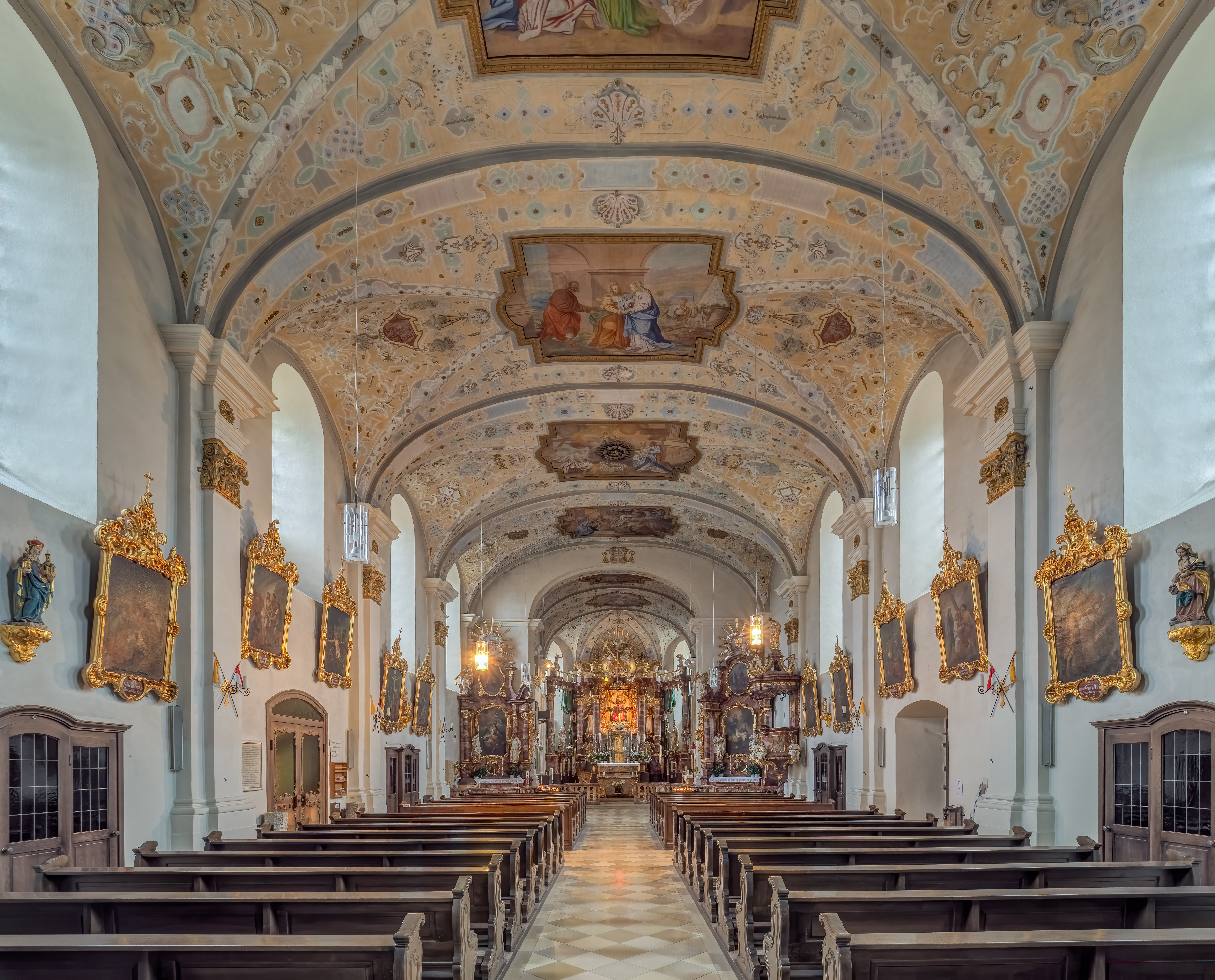 Interior of the pilgrimage basilica in Marienweiher